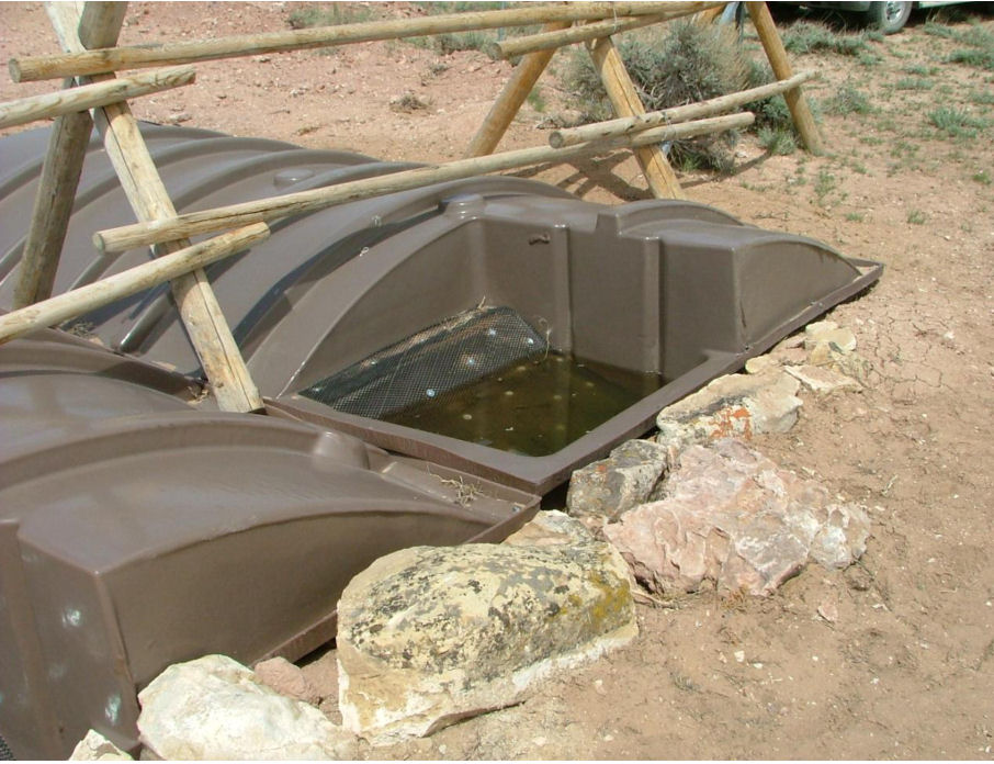 A wildlife "guzzler" installed in 2008 at the Pryor Mountains Wild Horse Range in Montana in the United States. The "guzzler" is a precipitation (usually rainwater) collection device which traps water in a storage tank (ranging in size from a few to several thousand gallons/liters). The storage tank can be above-ground, partially buried, or below-ground. A mechanical valve senses when there is not enough water in the trough, and releases more water into the drinking trough from the storage tanks. Guzzlers are usually used to provide wildlife (and sometimes domestic animals) with temporary water sources during dry seasons. Note the screen which prevents rodents from climbing into the storage tank and polluting it. The wooden fence prevents animals from trampling on and damaging the storage tanks.